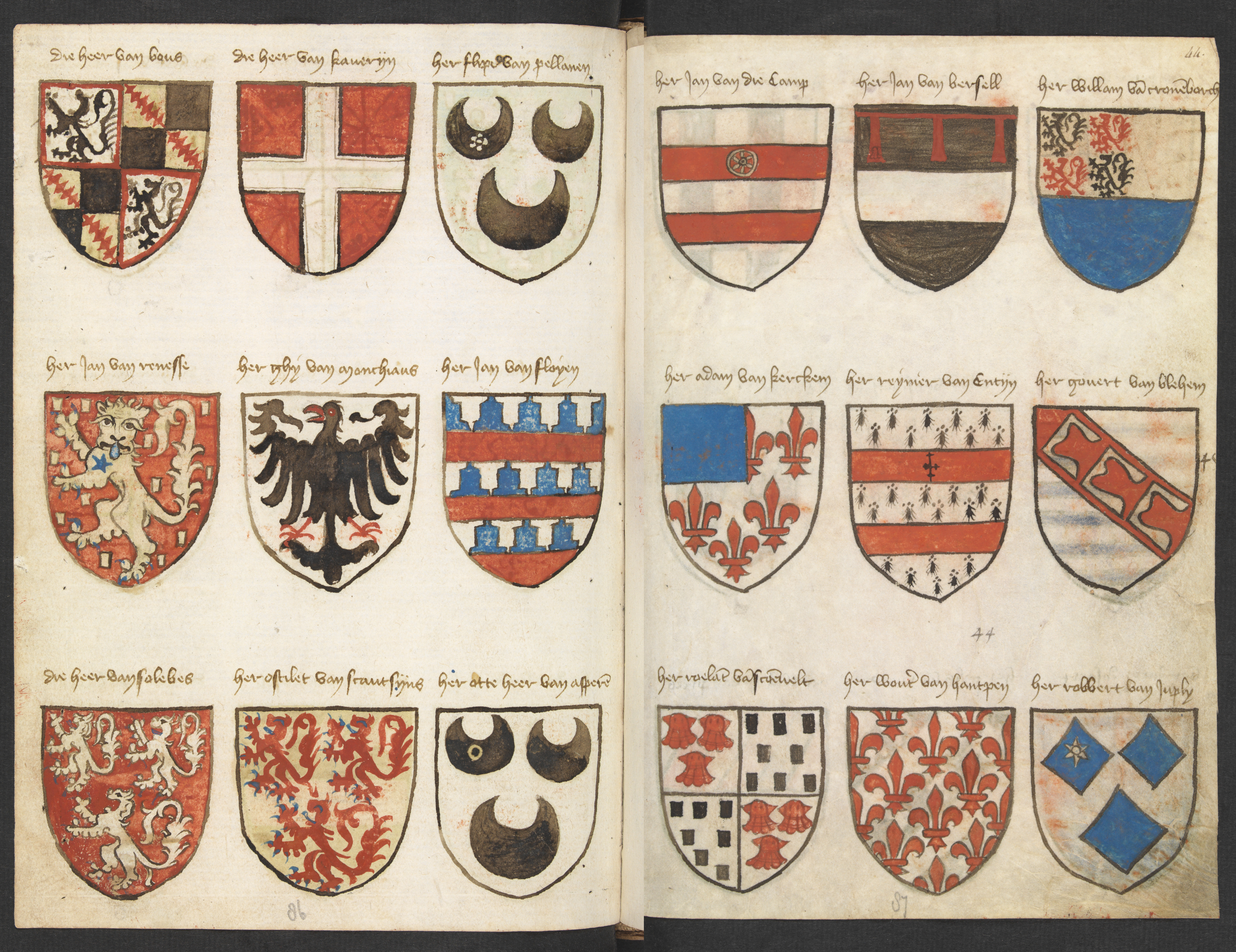 Lefthand side folio 043v; righthand side folio 044r from the Beyeren armorial / Wapenboek Beyeren